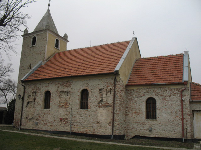 Church of Malá Mača